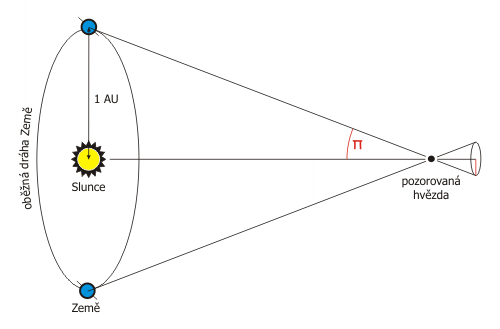 Stellar parallax